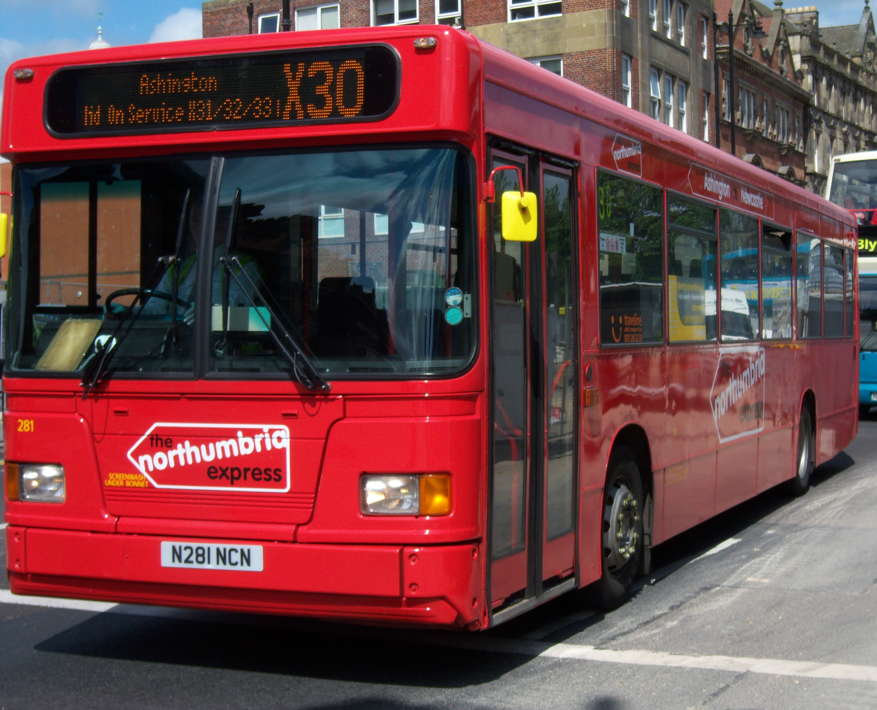 Arriva North East 281 (N281 NCN), a Scania L113/East Lancs European bus, in Newcastle upon Tyne, on route X30.